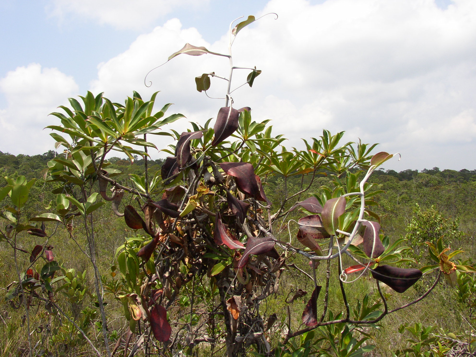 Padang scrub at Bako National Park, with Nepenthes rafflesiana and N. gracilis climbing on shrub plant in foreground.